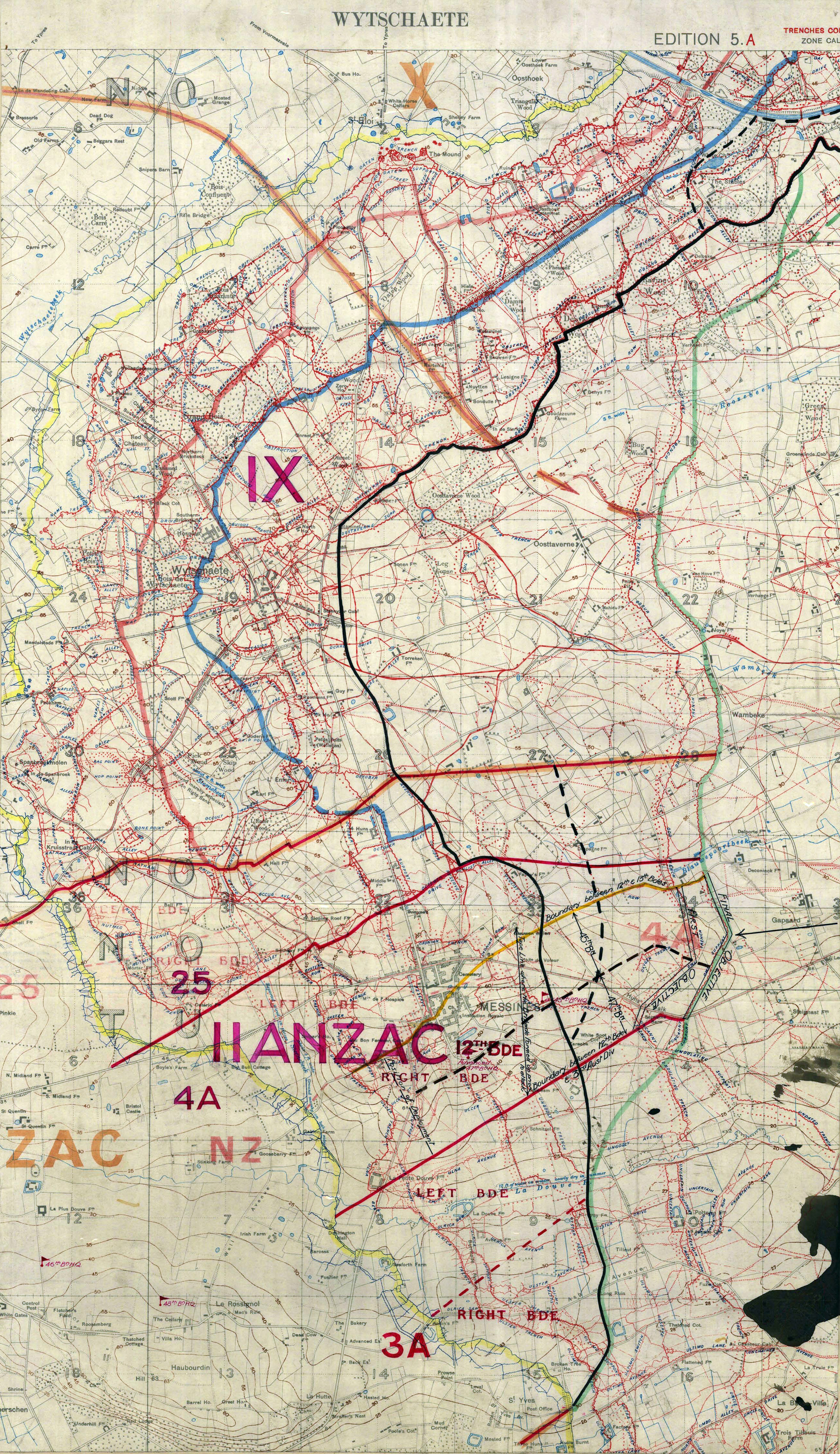 1:20000 scale attack planning map from the Battle of Messines. The objectives are II ANZAC, IX and X Corps are marked. The II ANZAC sector has greater detail.